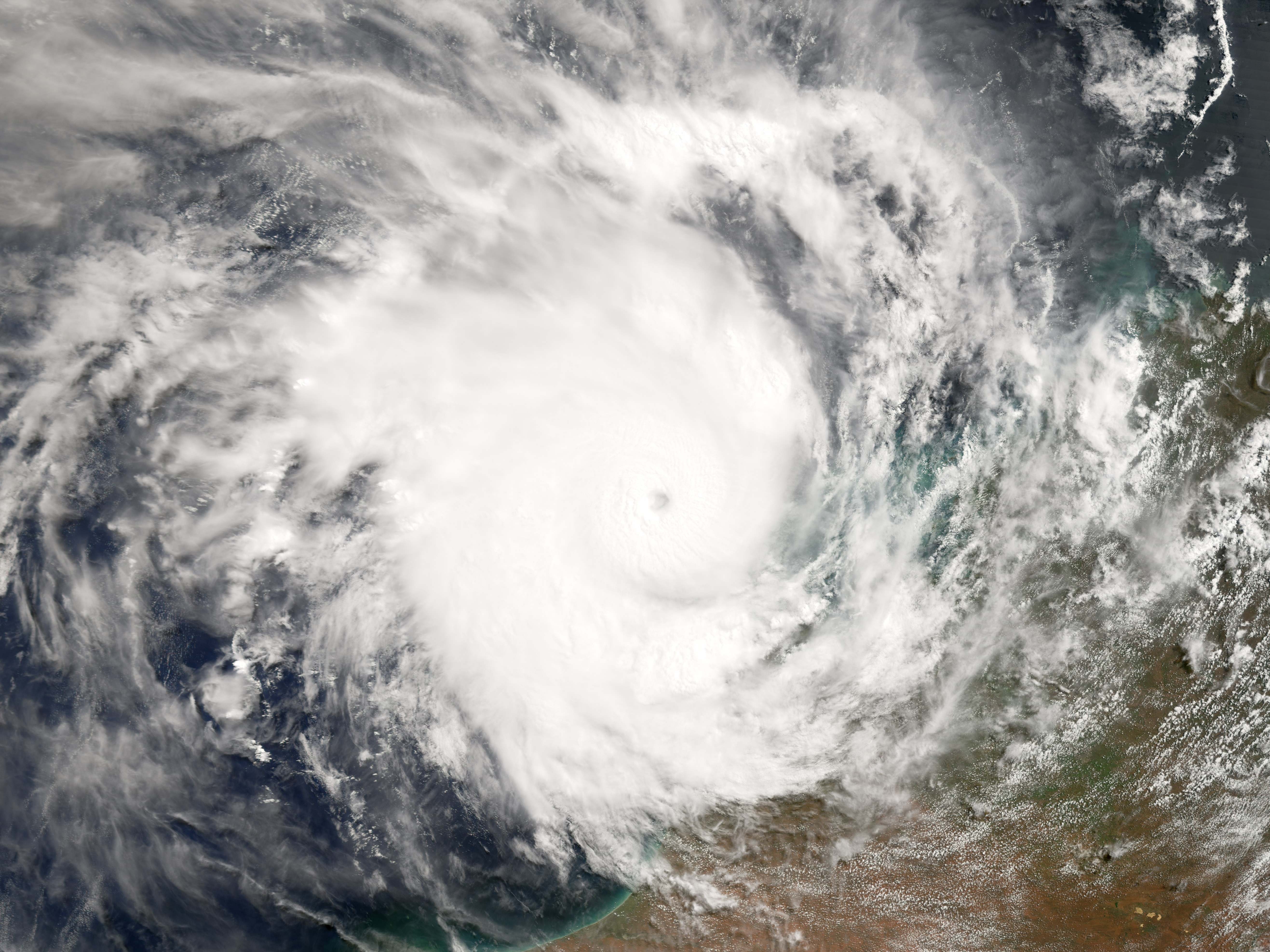 Tropical Cyclone Glenda formed off the northwestern coast of Australia on March 27, 2006. The storm quickly built into a powerful and well-defined cyclone during the next day. Powerful winds have whipped up surf along the coastline of Western Australia’s Pilbara region, and the storm also brought heavy rain to the islands off the Kimberly coast. As of March 28, 2006, the storm had reached Category 4 status and was expected to build power and reach the maximum, Category 5, rating during the next day. This natural-color image was acquired by the Moderate Resolution Imaging Spectrometer (MODIS) on the Terra satellite on March 28, 2006, at 10:00 a.m. local time (02:00 UTC). It shows Cyclone Glenda as a well-developed storm, sitting 180 kilometers (150 miles) north of Broome. The storm was already large enough that Broome was covered by the edge of the cyclone. Sustained, peak winds in the storm system were roughly 165 kilometers per hour (105 miles per hour) at this time. The cyclone had been traveling roughly parallel to the coastline, putting the entire coastal area on alert. The area includes not only major pearl-diving operations and beaches that attract tourists, but it is also home to the Northwest Shelf, one of Australia’s major oil fields. The oil fields are located off the coast near Dampier. According to news reports, operators were not expressing concern about the oil field but were planning for necessary shutdowns for safety.